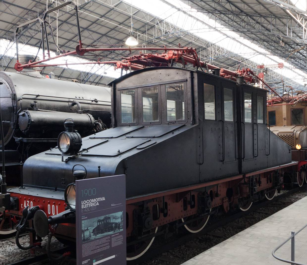 Electric locomotive GRE430.